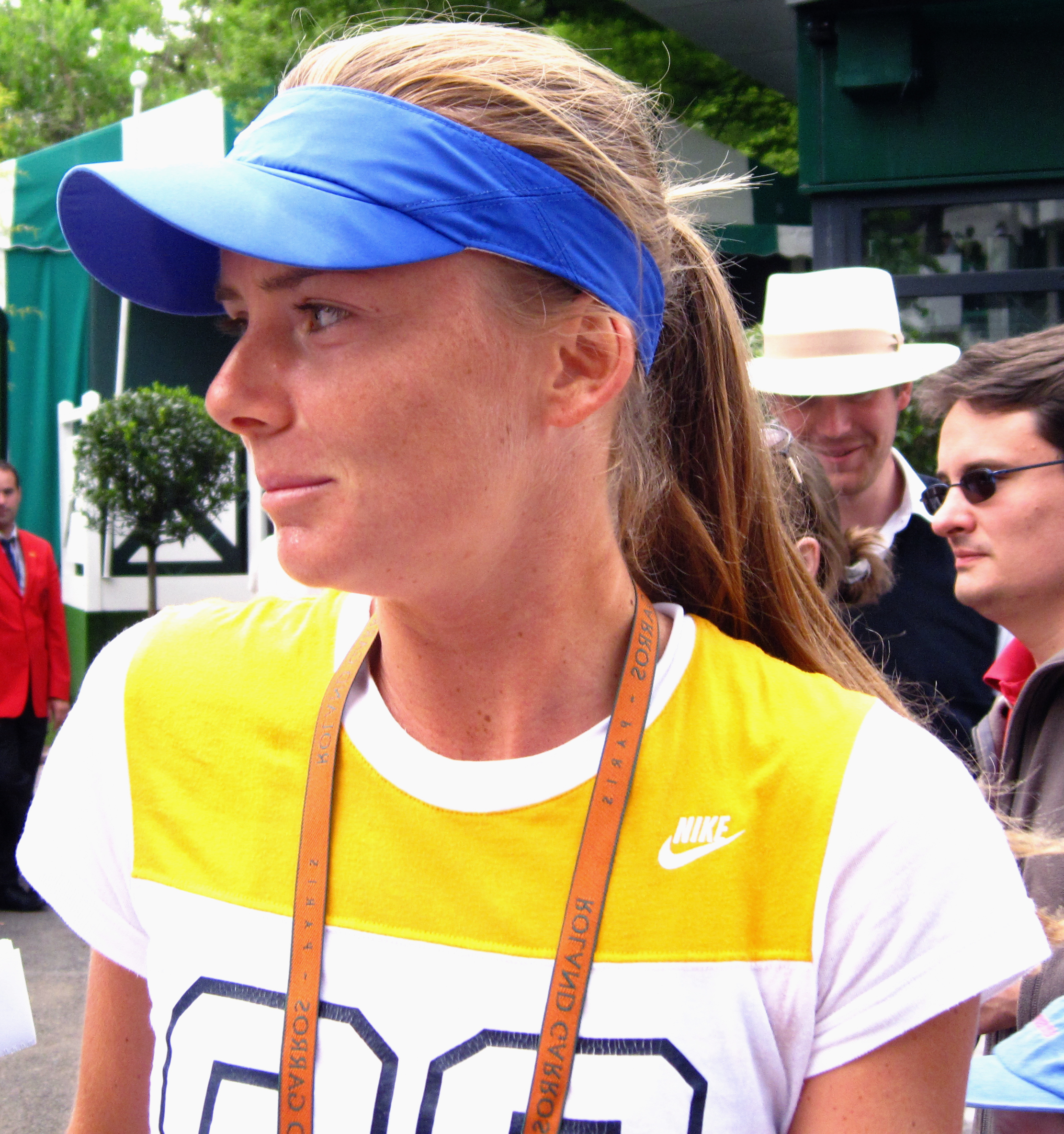 Daniela Hantuchová at 2009 Roland Garros, Paris, France